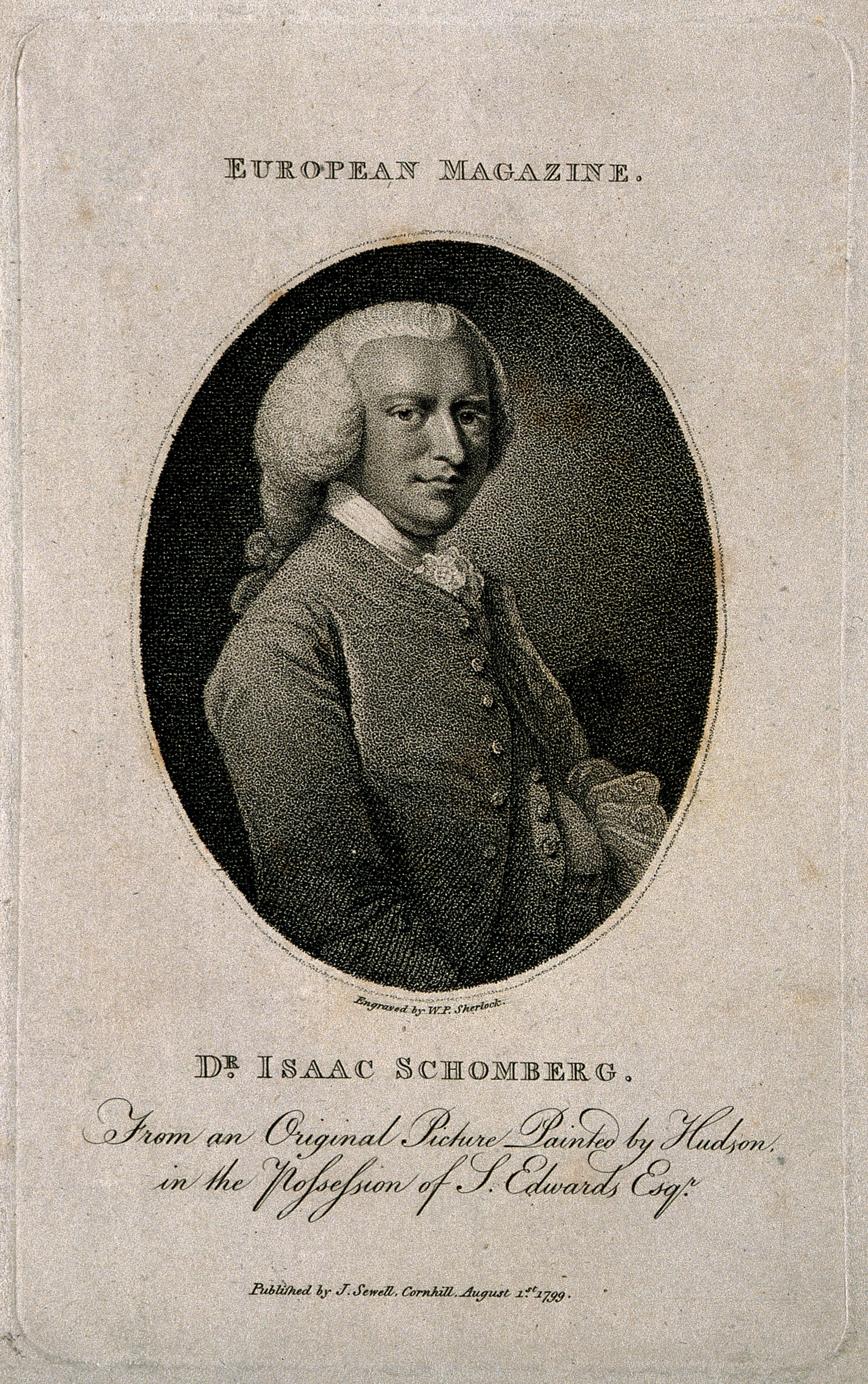 Isaac Schomberg. Stipple engraving by W. P. Sherlock, 1799, after T. Hudson. Iconographic Collections Keywords: portrait prints; stipple prints; Isaac Schomberg